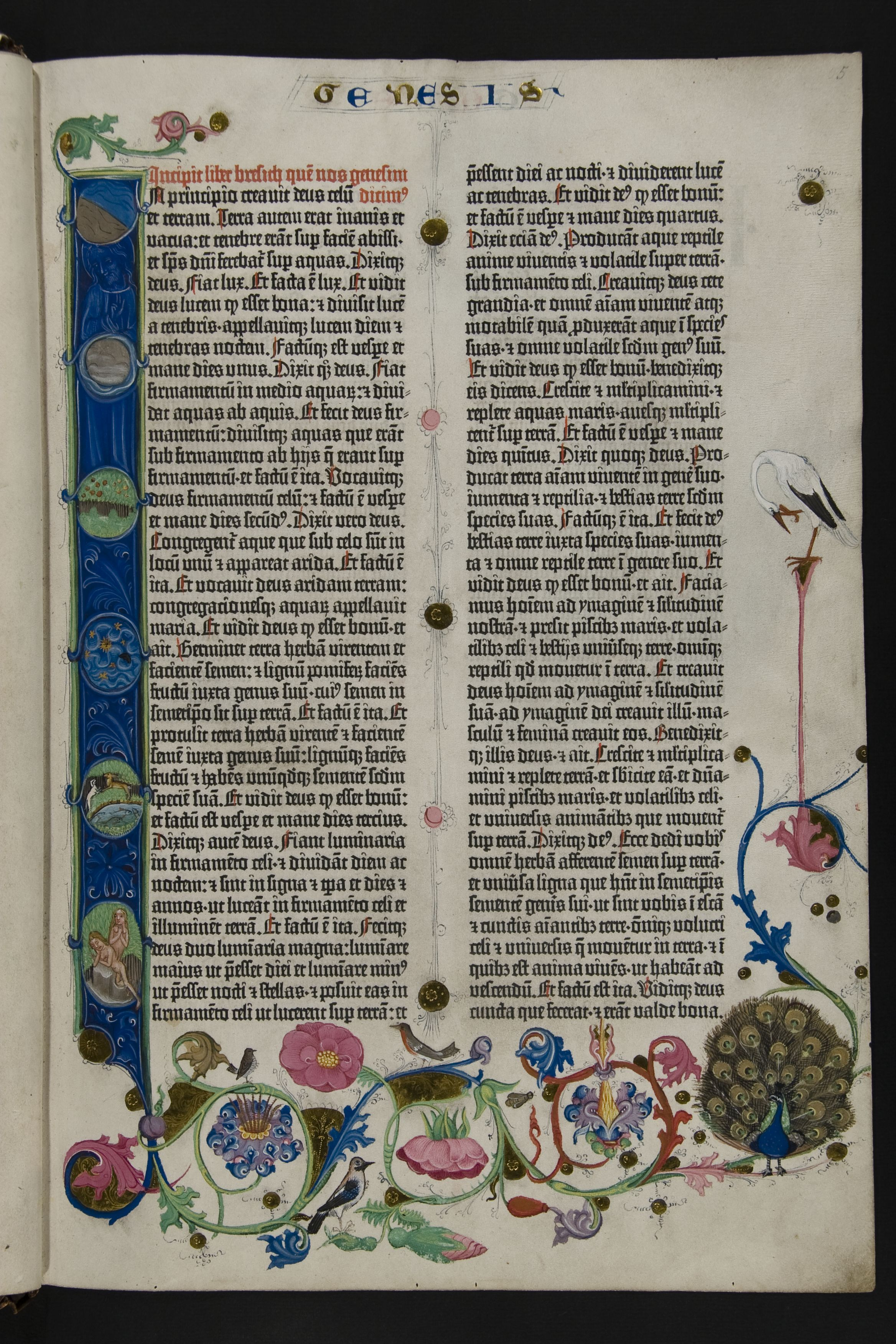 Beginning of the book of Genesis in the Gutenberg Bible - Staatsbibliothek Berlin copy